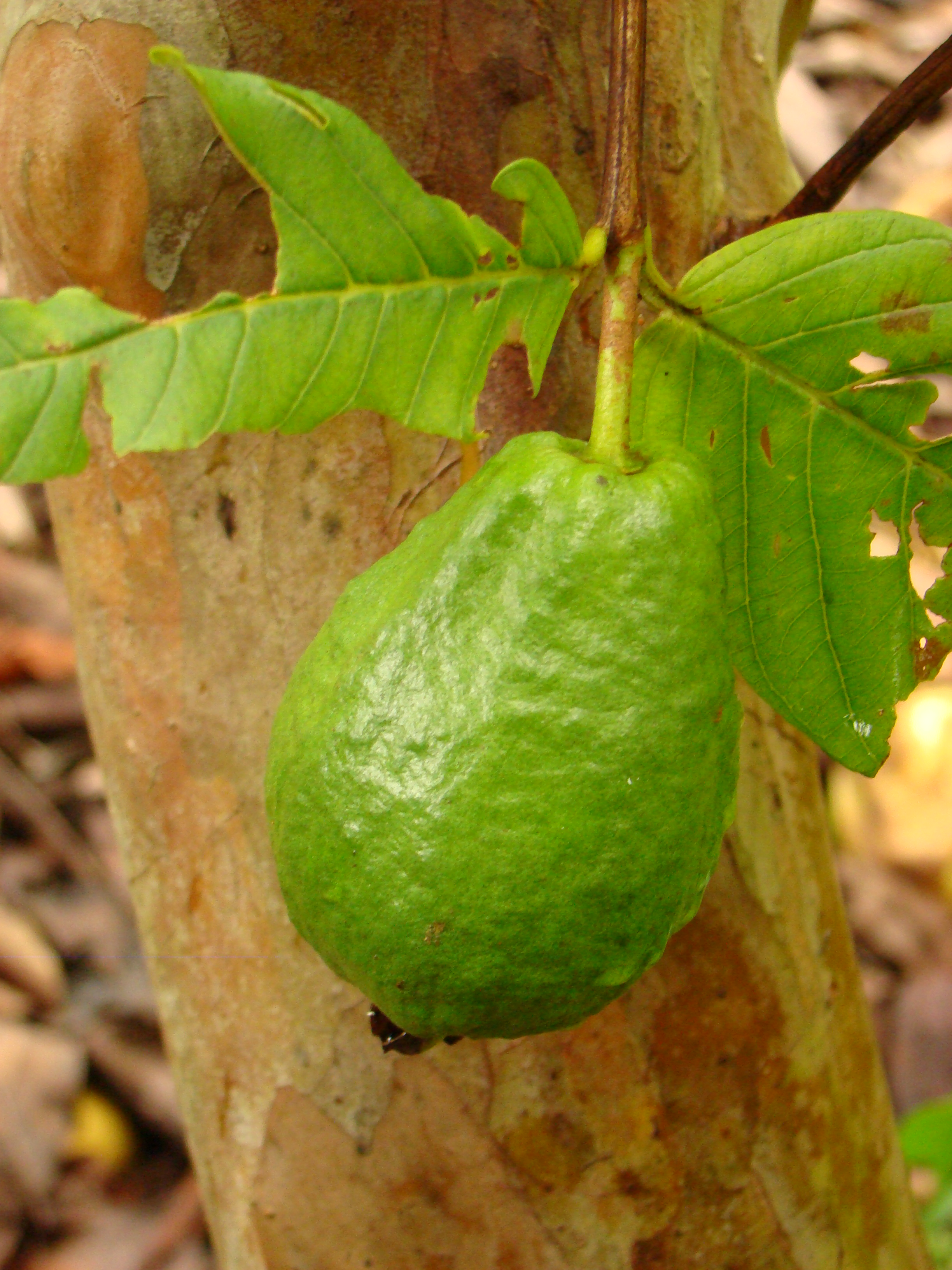 'Vietnamese Giant' Guava (Psidium guajava / Myrtaceae) tree at the Kampong, Coconut Grove, Florida. Fruits on the tree and on the ground were all infested with Fruit Flies.